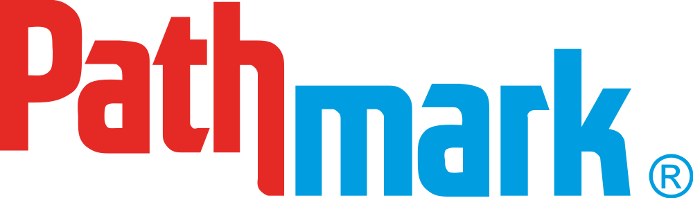 PathMark Logo